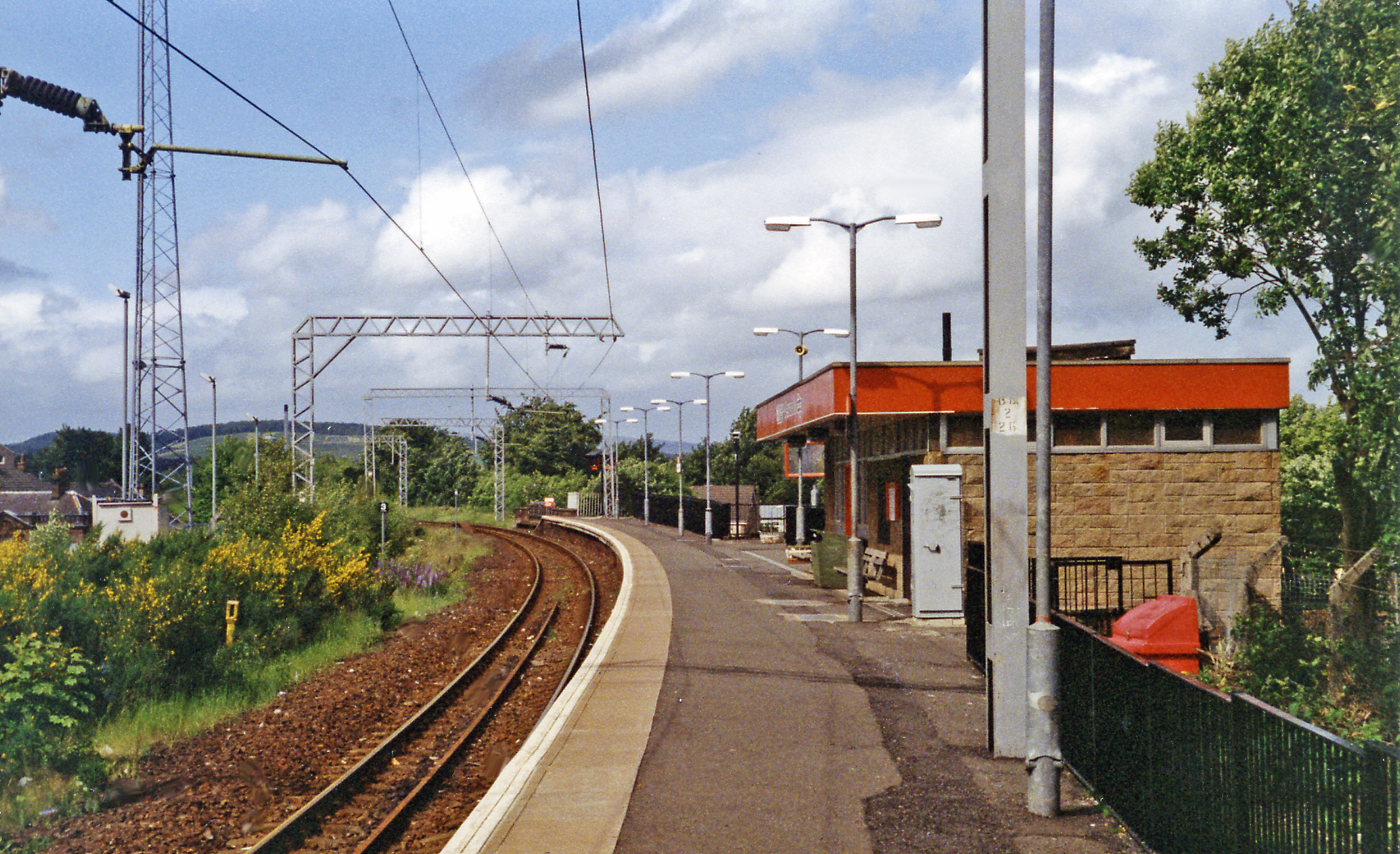 Alexandria station. View north, towards Balloch Pier: ex-NB & Caledonian (Dumbarton & Balloch) Joint branch from Dumbarton Central to Balloch Pier, electrified in November 1960.